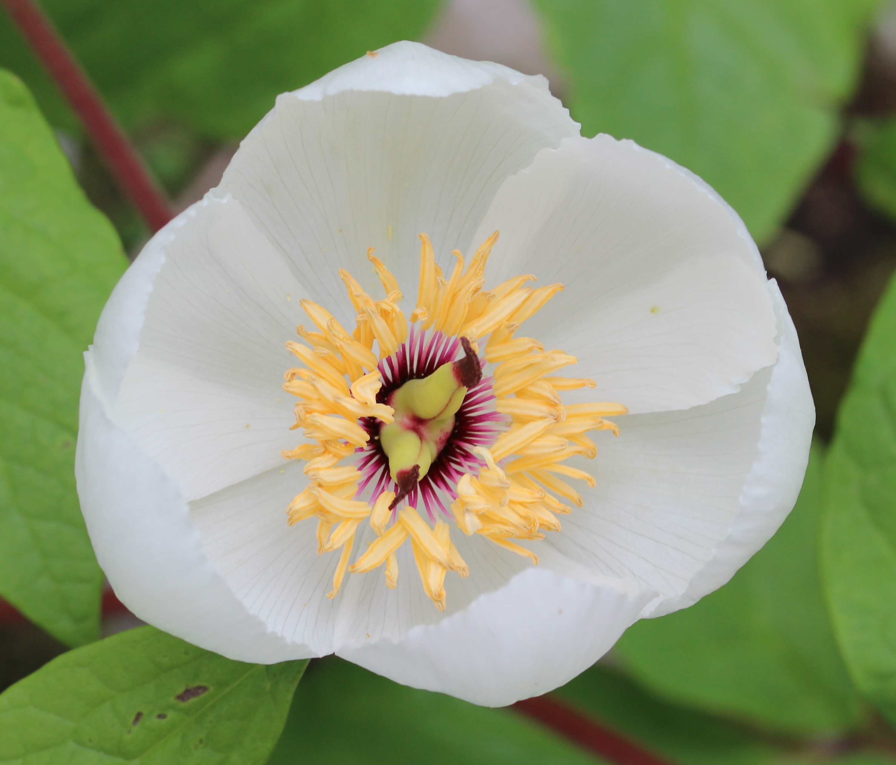 Paeonia japonica in Mount Ryozen of Suzuka Mountains, Japan.